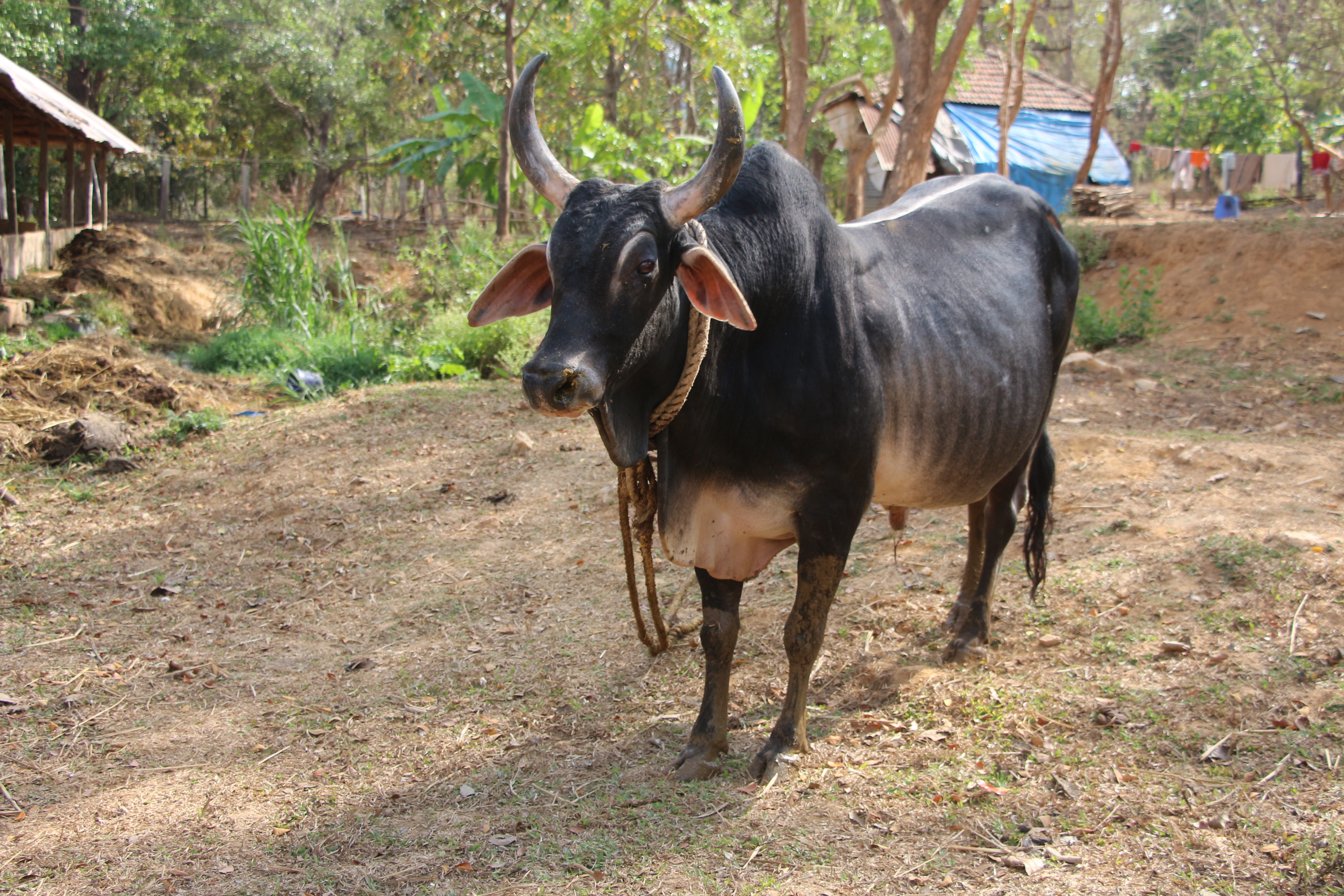 Indian cow breed Kankrej ಕನ್ನಡ: ಭಾರತೀಯ ಗೋತಳಿ ಕಾಂಕ್ರೇಜ್